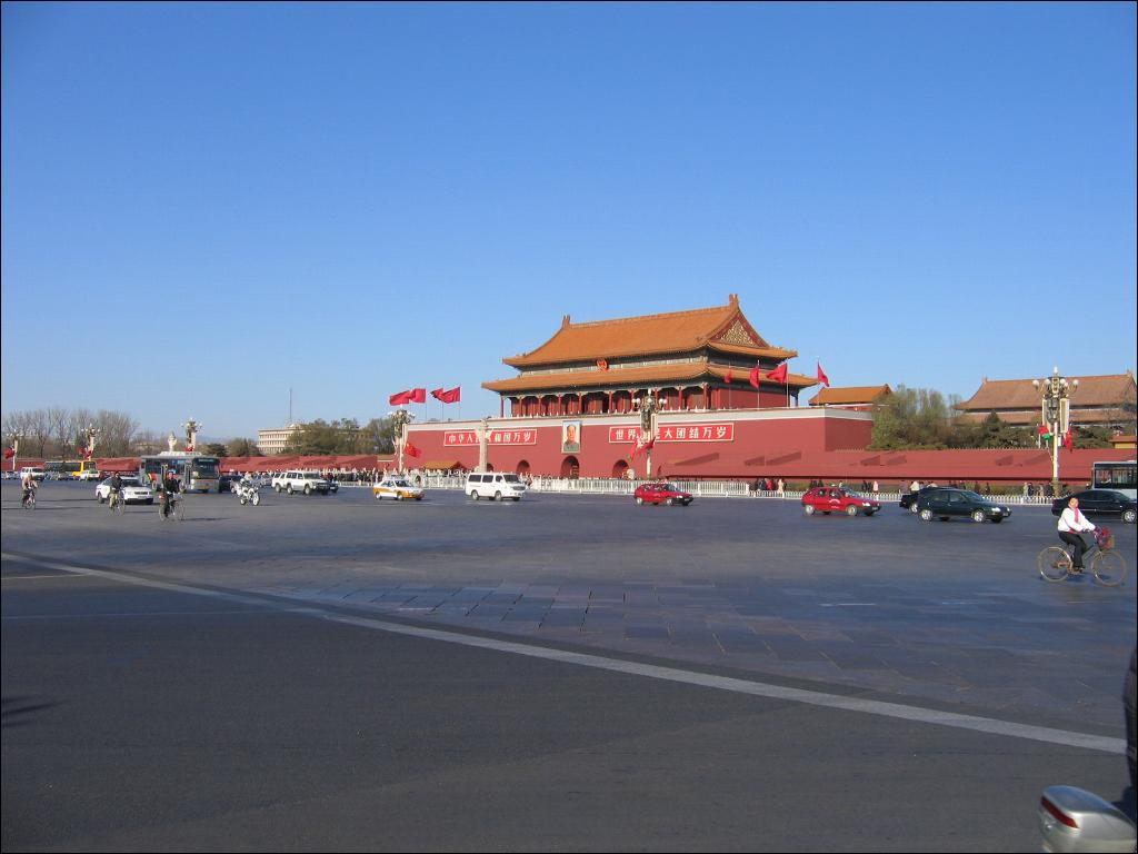 The Tiananmen Gate in Beijing